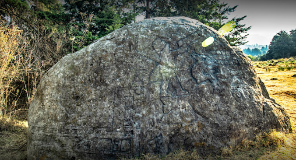 Es una piedra tallada en la cual se hacían sacrificios.